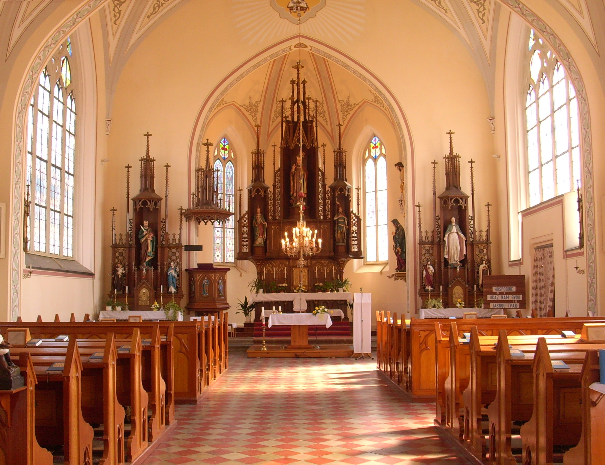 Interior of St. Procopius Church in Dlouha Trebova